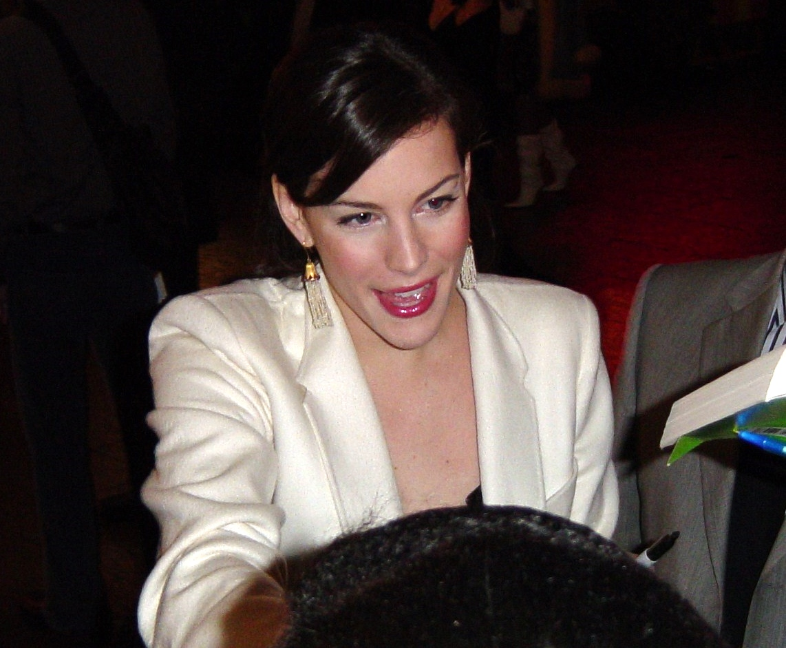 Liv Tyler at the UK premiere of "The Return Of The King" in Leicester Square, December 2003.